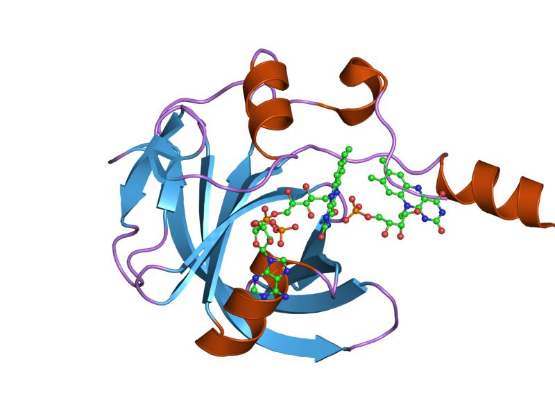 Cartoon representation of the molecular structure of protein registered with 1yoa code.